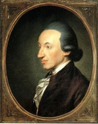 The German writer Christoph Martin Wieland (1733-1813)